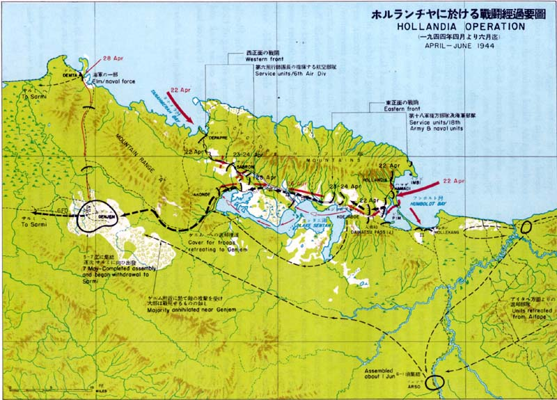 Japanese Hollandia Operation, April-June 1944